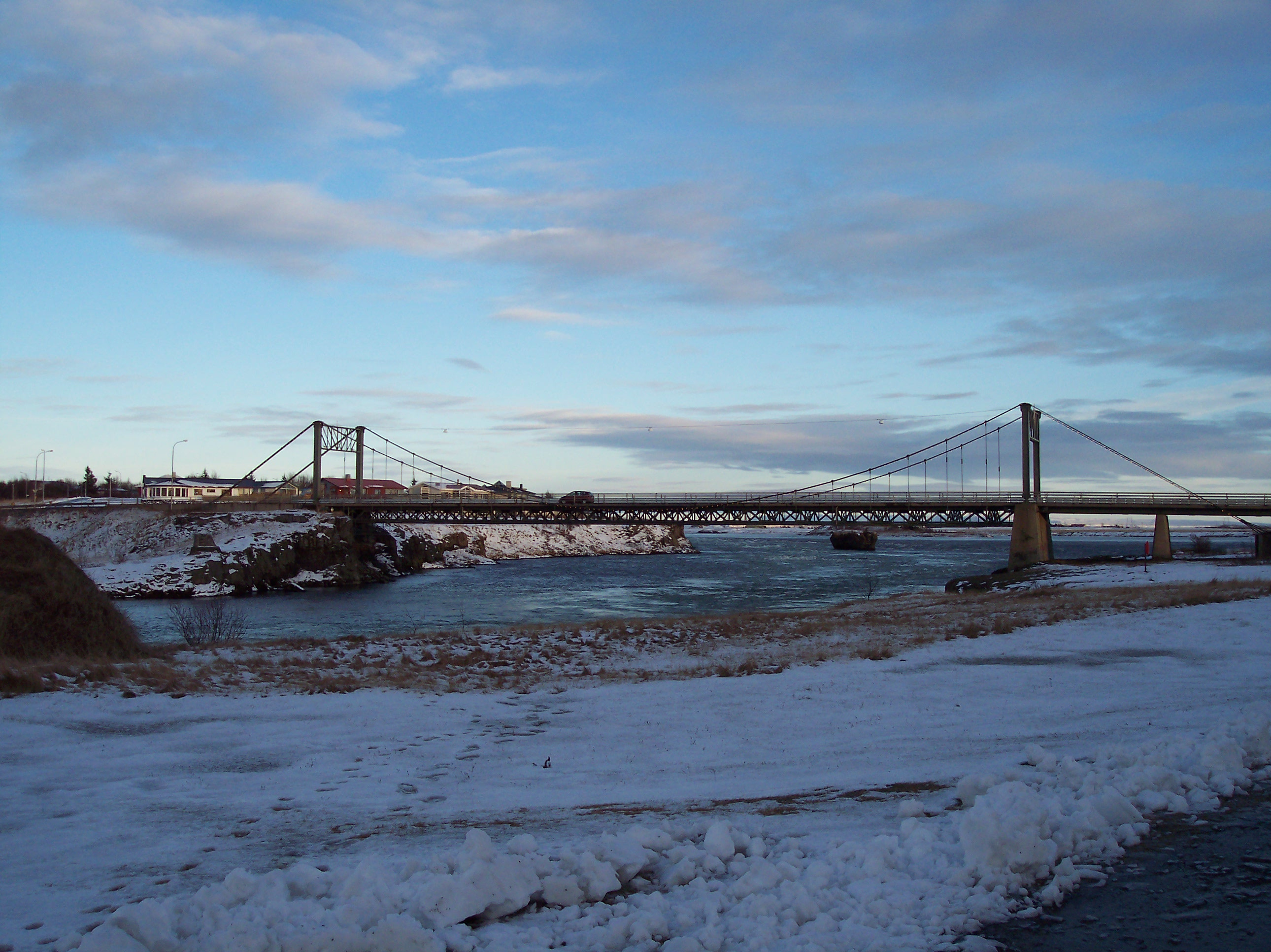 The Ölfusárbrú, a suspension bridge in the town of Selfoss. Picture taken in desember 2005 by Jóna Þórunn Ragnarsdóttir.